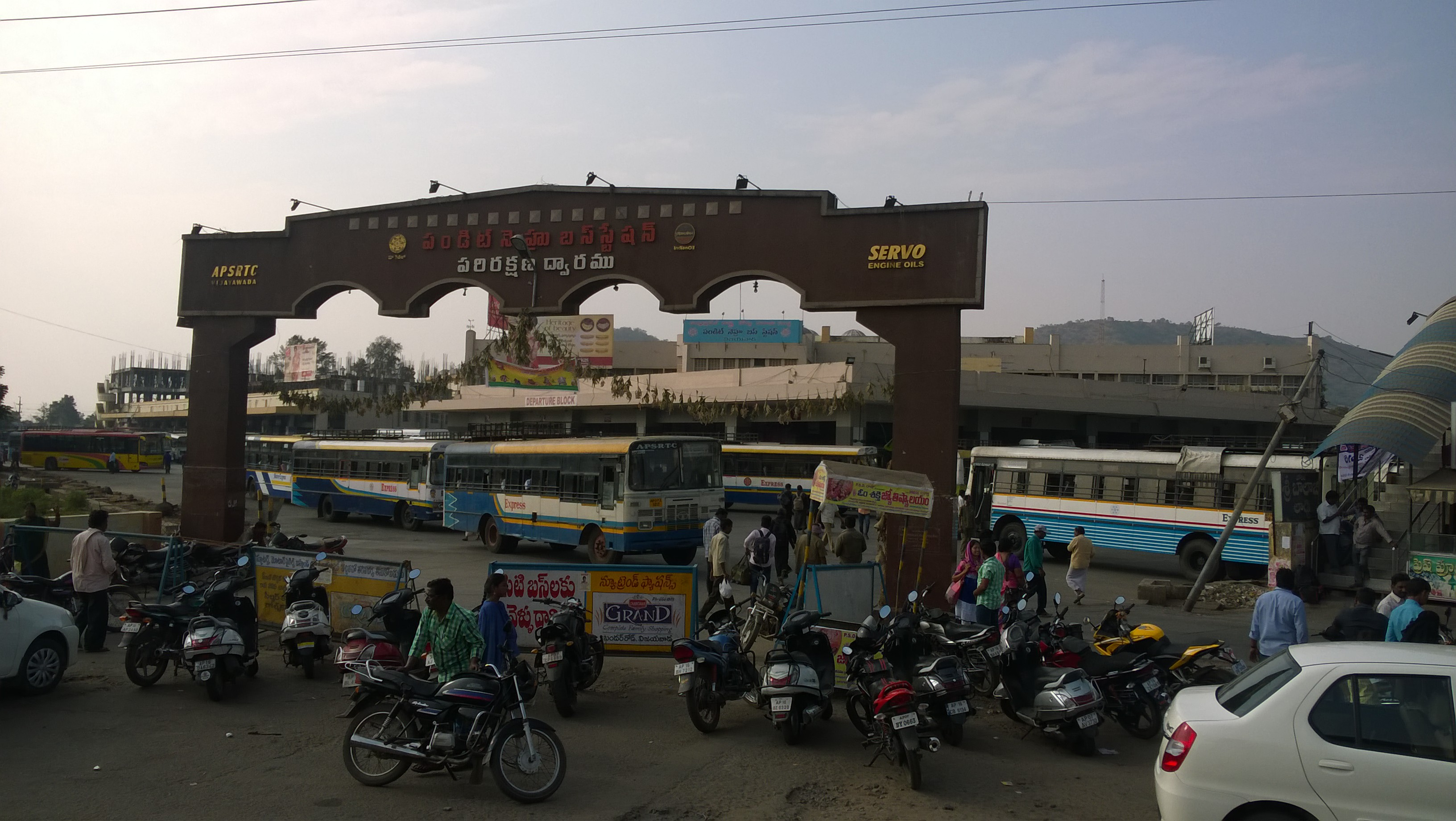 PNBS on 20th jan 2016 Other information pnbs